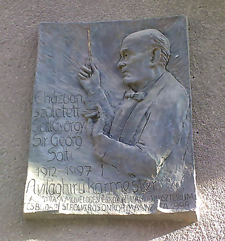 Commemorative plaque of Georg Solti, Budapest District XII, Maros Street No 29